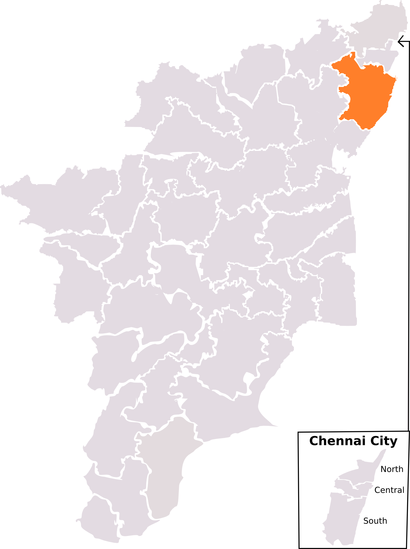 Lok Sabha Election map labeling each constituency for individual pages for Tamil Nadu after delimitation starting 2009 election. Map is based on ECI drawn map from